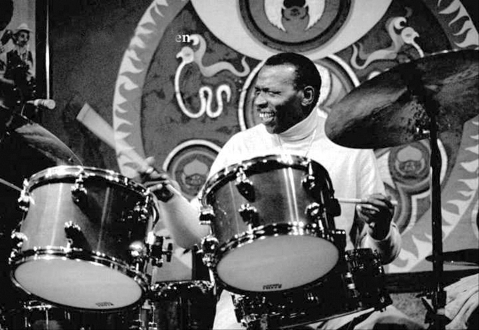 Elvin Jones at Keystone Korner, San Francisco CA 4/22/80 Photo: Brian McMillen